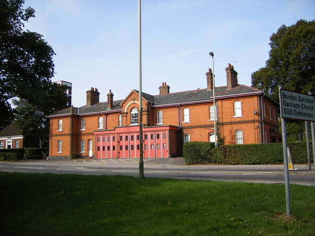 RAF Fire Station, Bordon. recently closed. Bordon fire station (part of Hampshire Fire & Rescue Service) is in a different location.